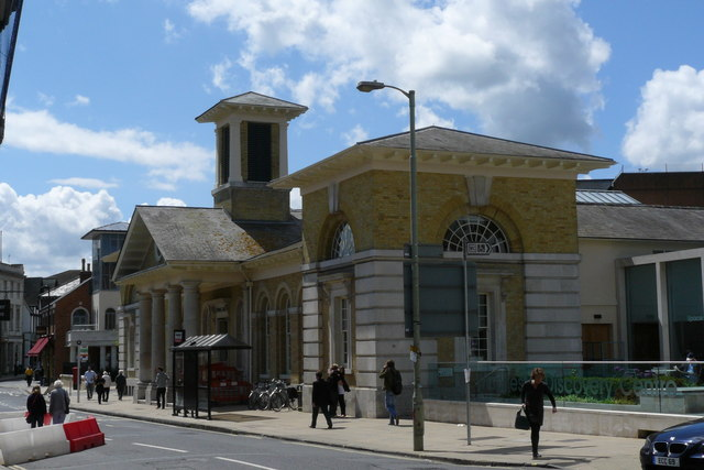 Library, Winchester As I walked along this street, I was thinking that it I had not recalled seeing this building on previous visits. A plaque indicated a construction date of 2008.?? Built in 1838.